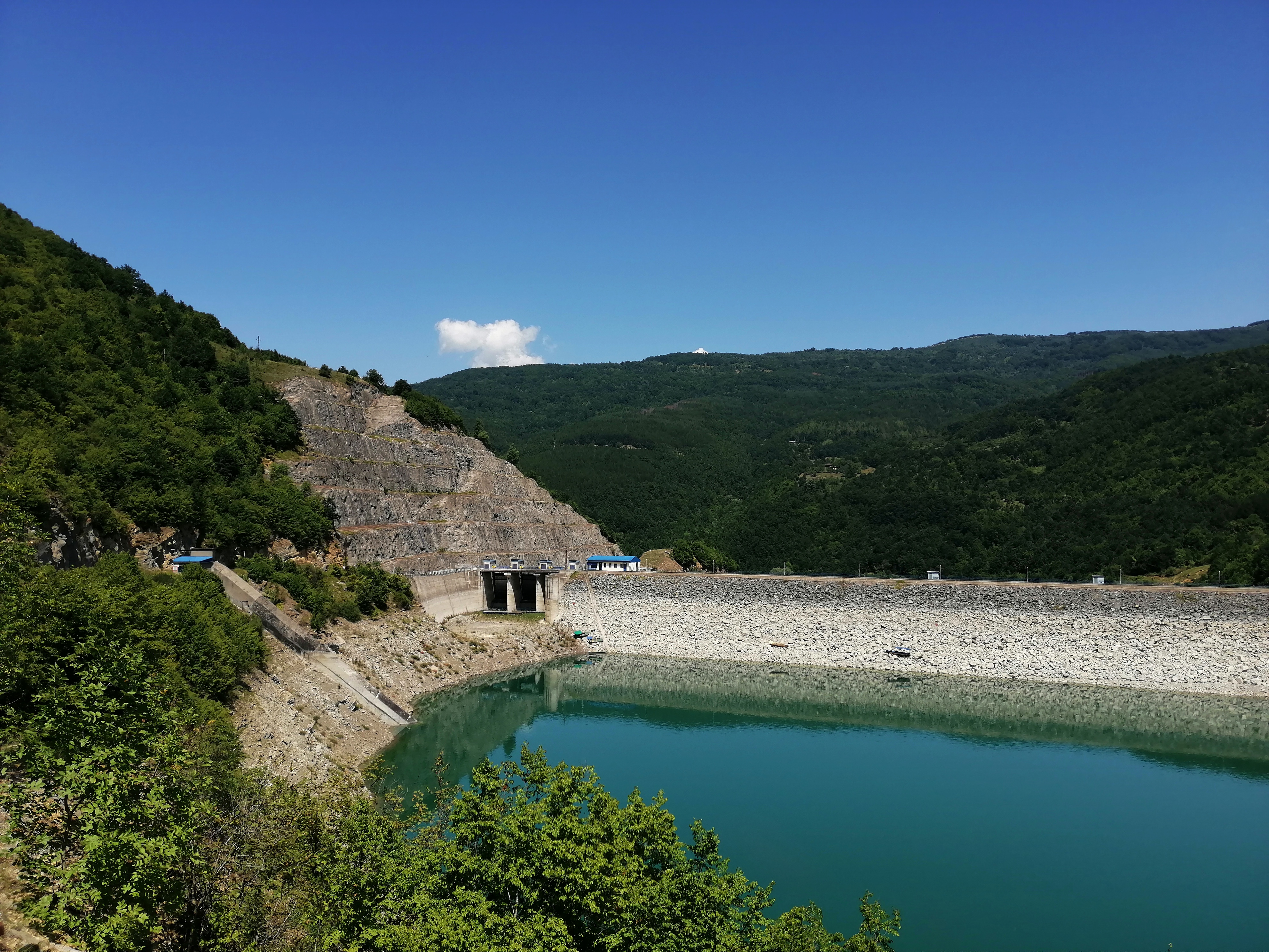 Dam Zavoj